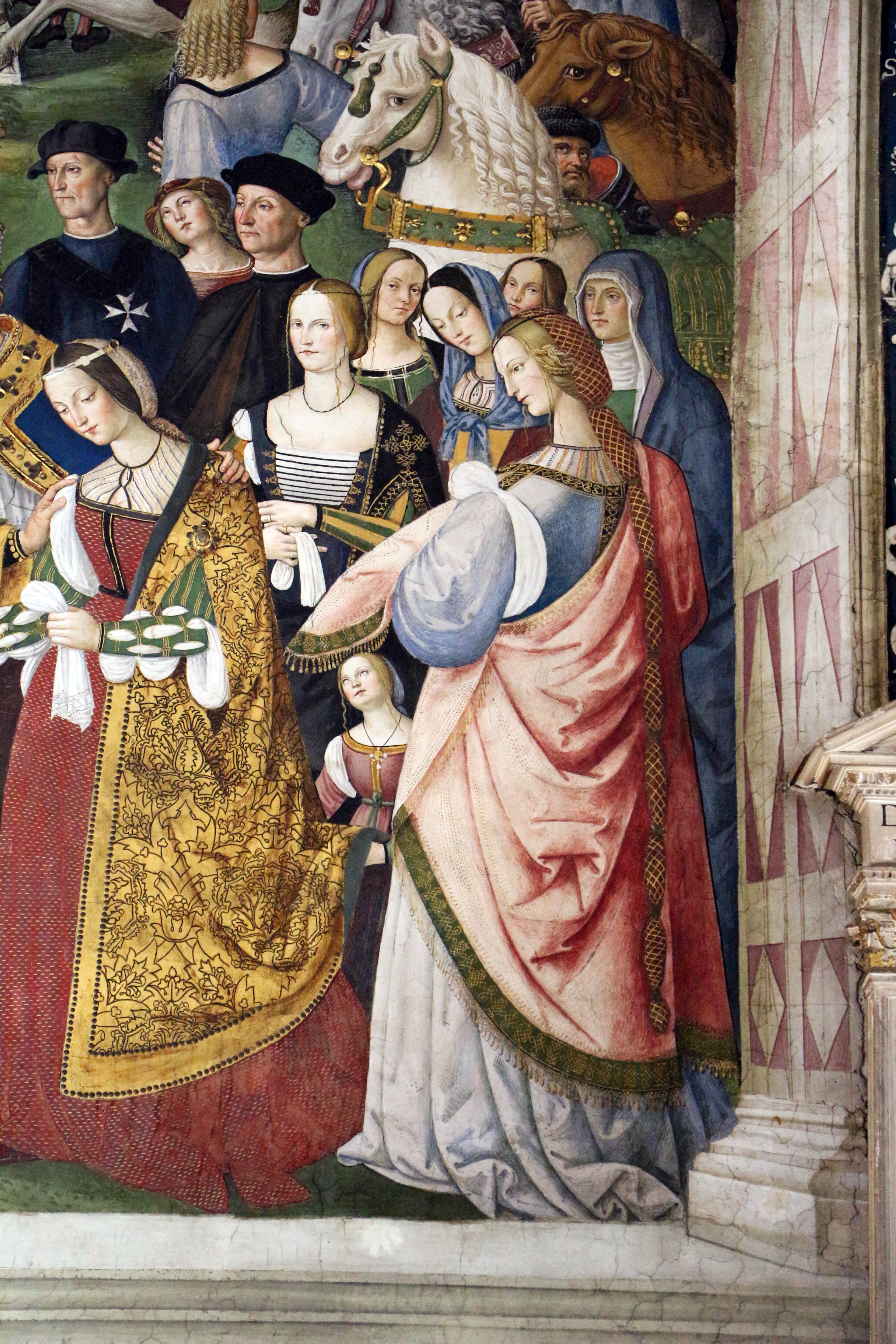 Cathedral (Siena) - Piccolomini Library - Frescos of Pius II, 5